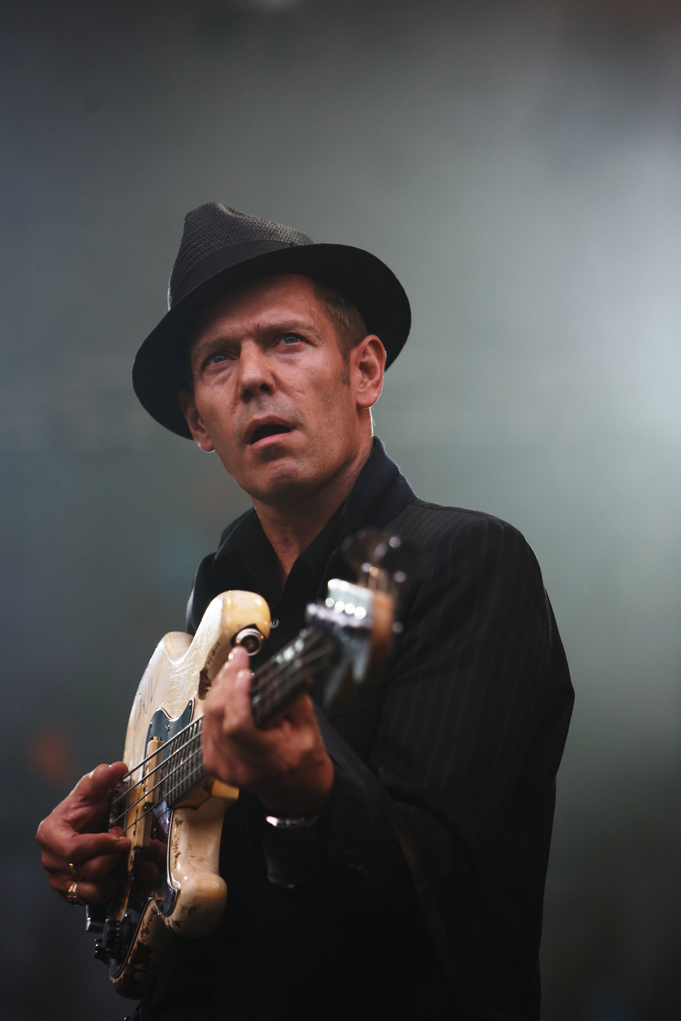 Paul Simonon at the Eurockéennes of 2007.